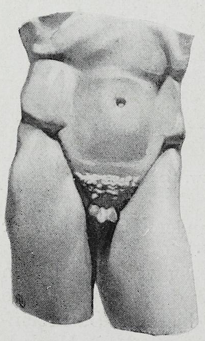 An anatomical illustration from the 1921 German edition of Anatomie des Menschen: ein Lehrbuch für Studierende und Ärzte with latin terminology.